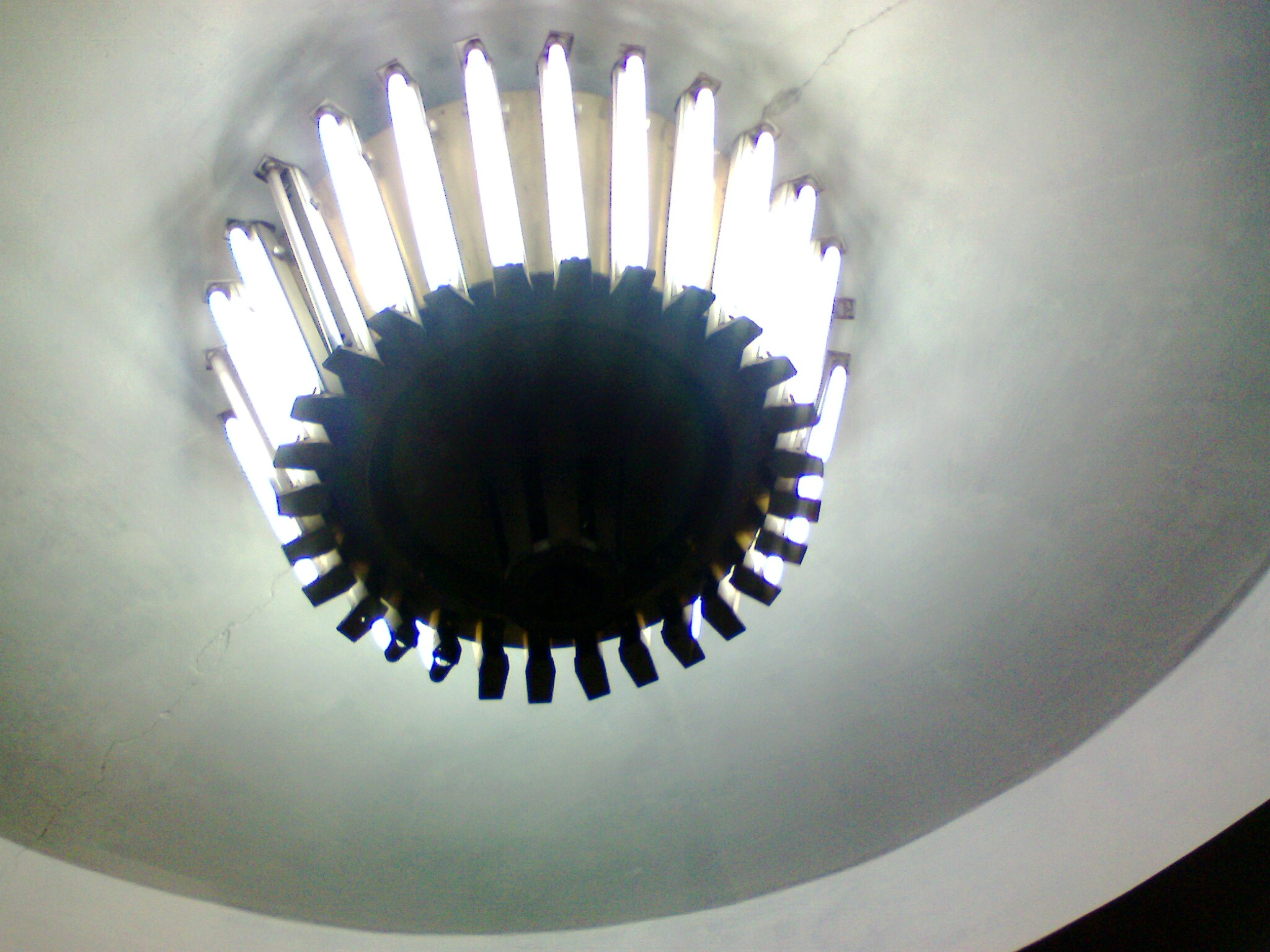 Chandelier in Maselskogo subway station, Kharkiv.